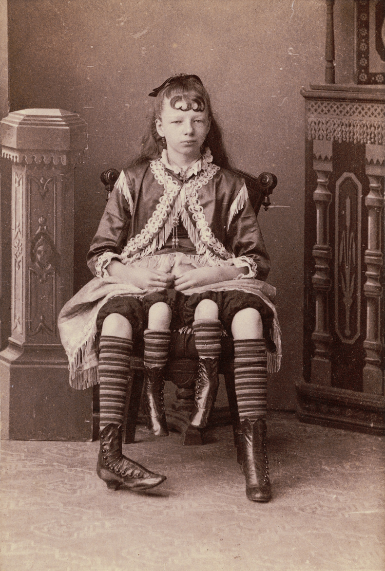 Picture of Myrtle Corbin. Eisenmann's date of death is unknown, but this page [1] would indicate that he died at least 70 years ago (article written ca. 2002, his granddaughter is 80+, and was ~8 when he died)